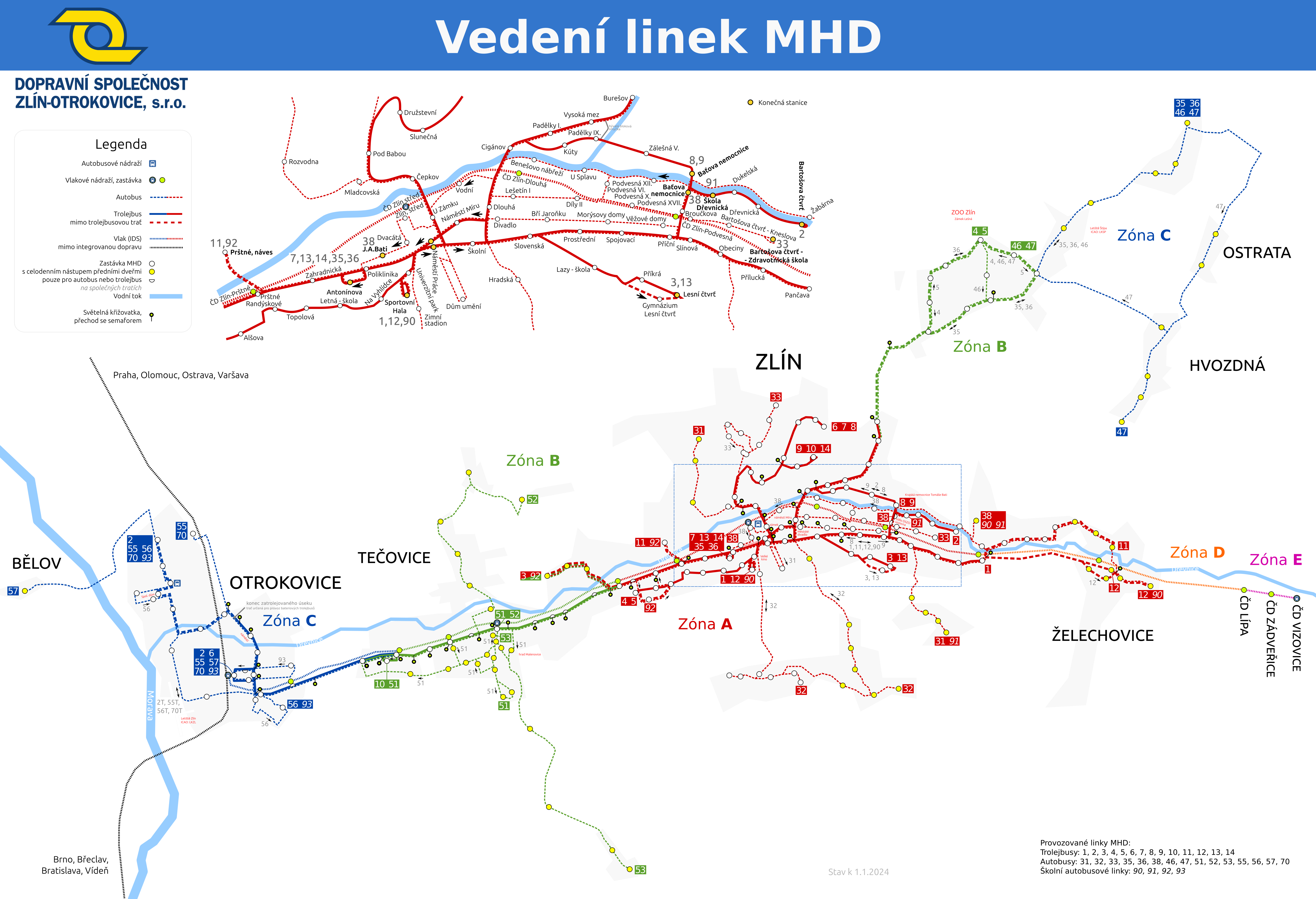 Zlín Public Transport map